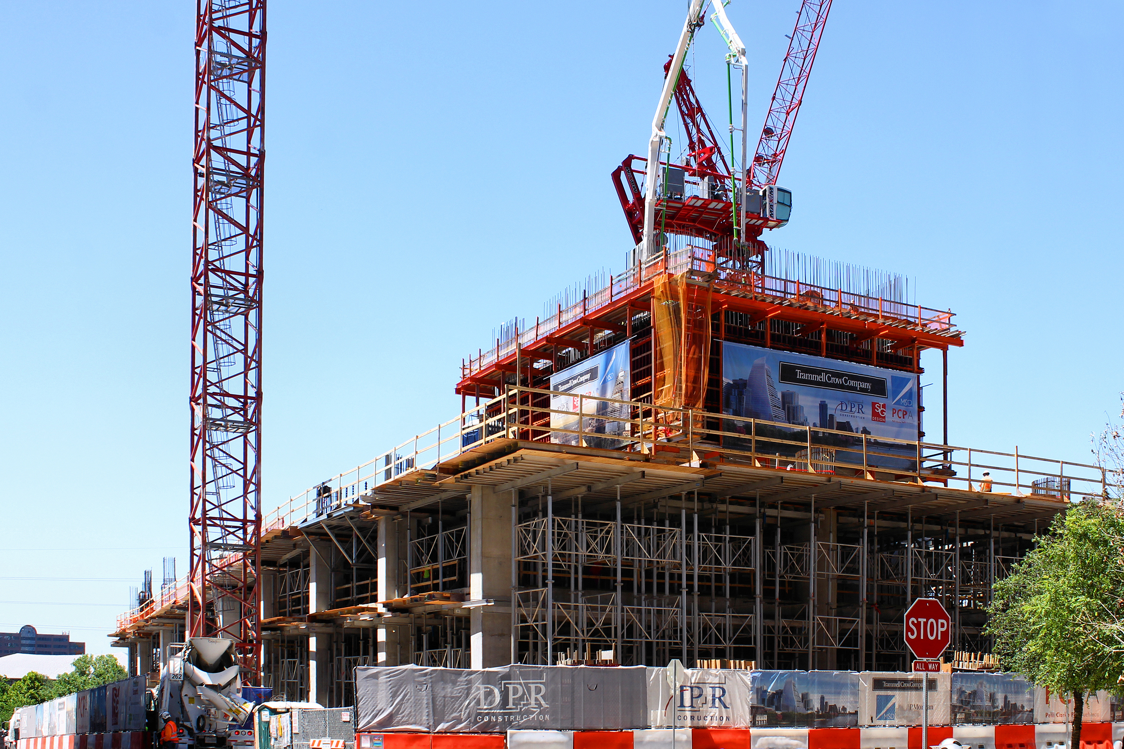 Block 185 Project under construction in Austin, Texas, United States.